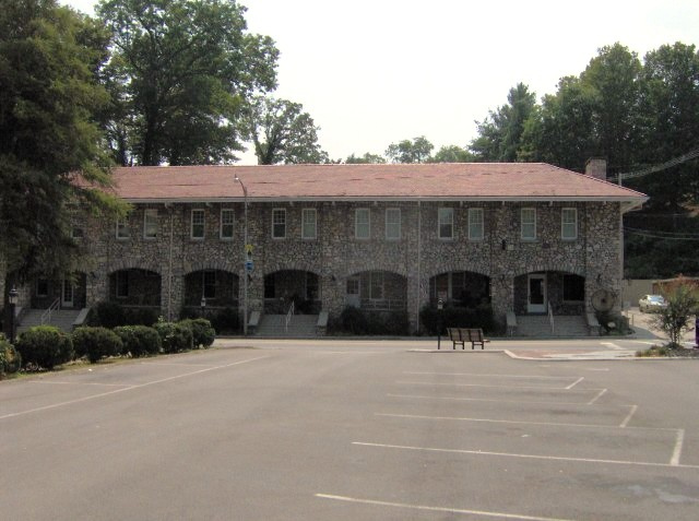 The Rhea-Mims Hotel in Newport, Tennessee. The hotel was built in 1925 out of native stone and restored in 2000 by the firm Barge, Waggoner, Sumner, and Cannon, Inc. It now serves as a home for senior citizens. The building was added to the National Register of Historic Places in 1998.